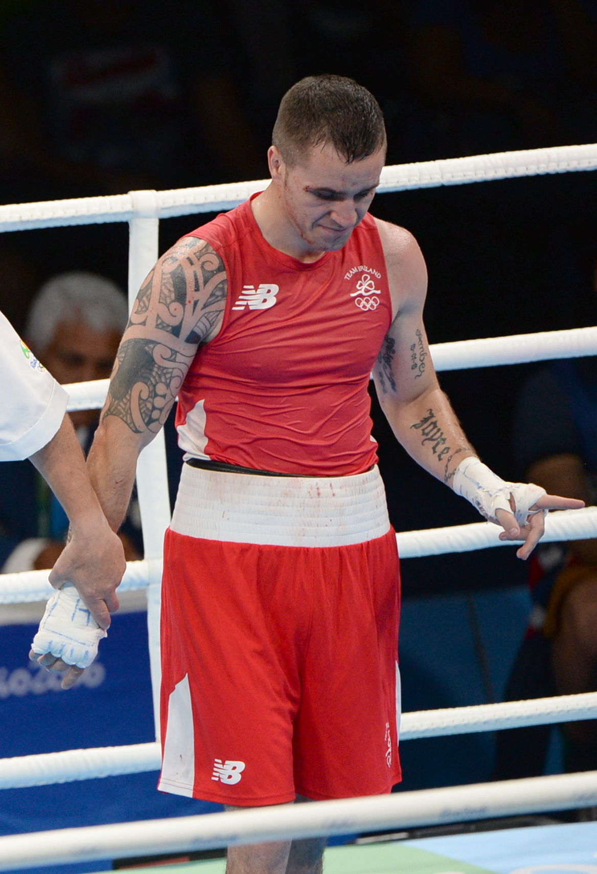 Boxing at the 2016 Summer Olympics, Selimov vs Joyce